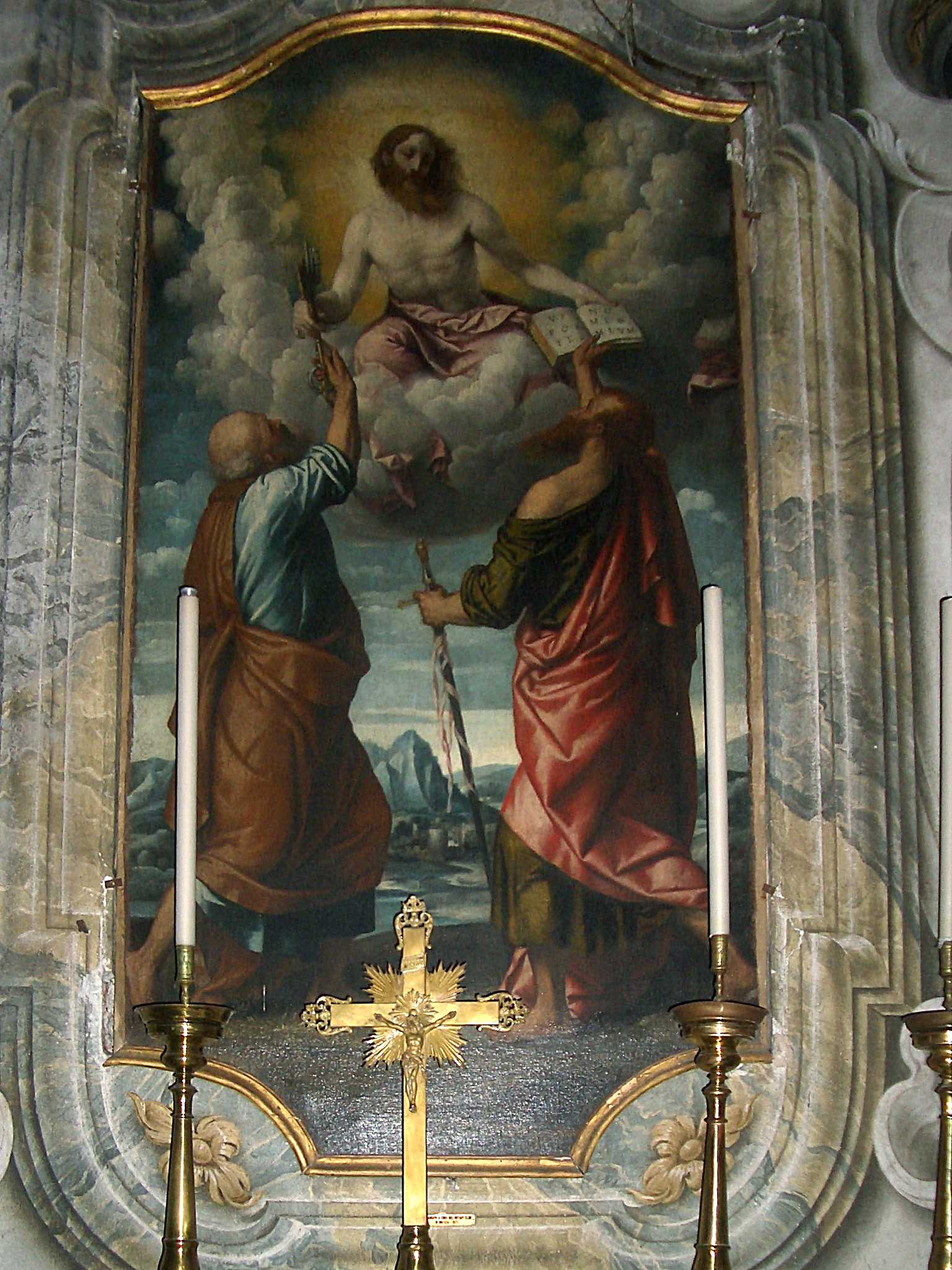 Abbey of Rodengo Saiano, San Nicola church, Alessandro Bonvicino, called il Moretto, Jesus giving to St. Peter the keys and giving to St. Paul the Doctrine’s Book, ca. 1540